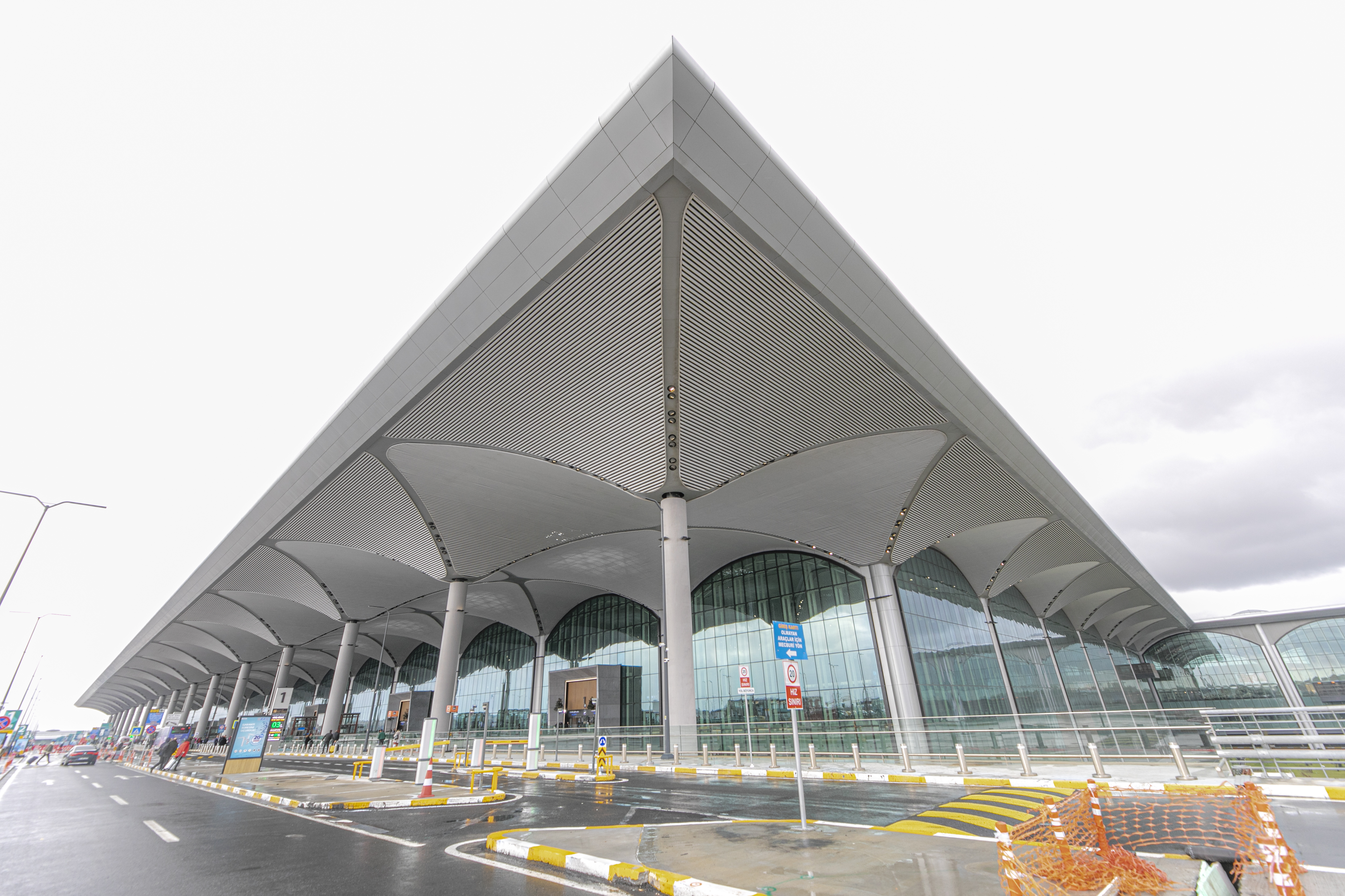 İstanbul Flughafen